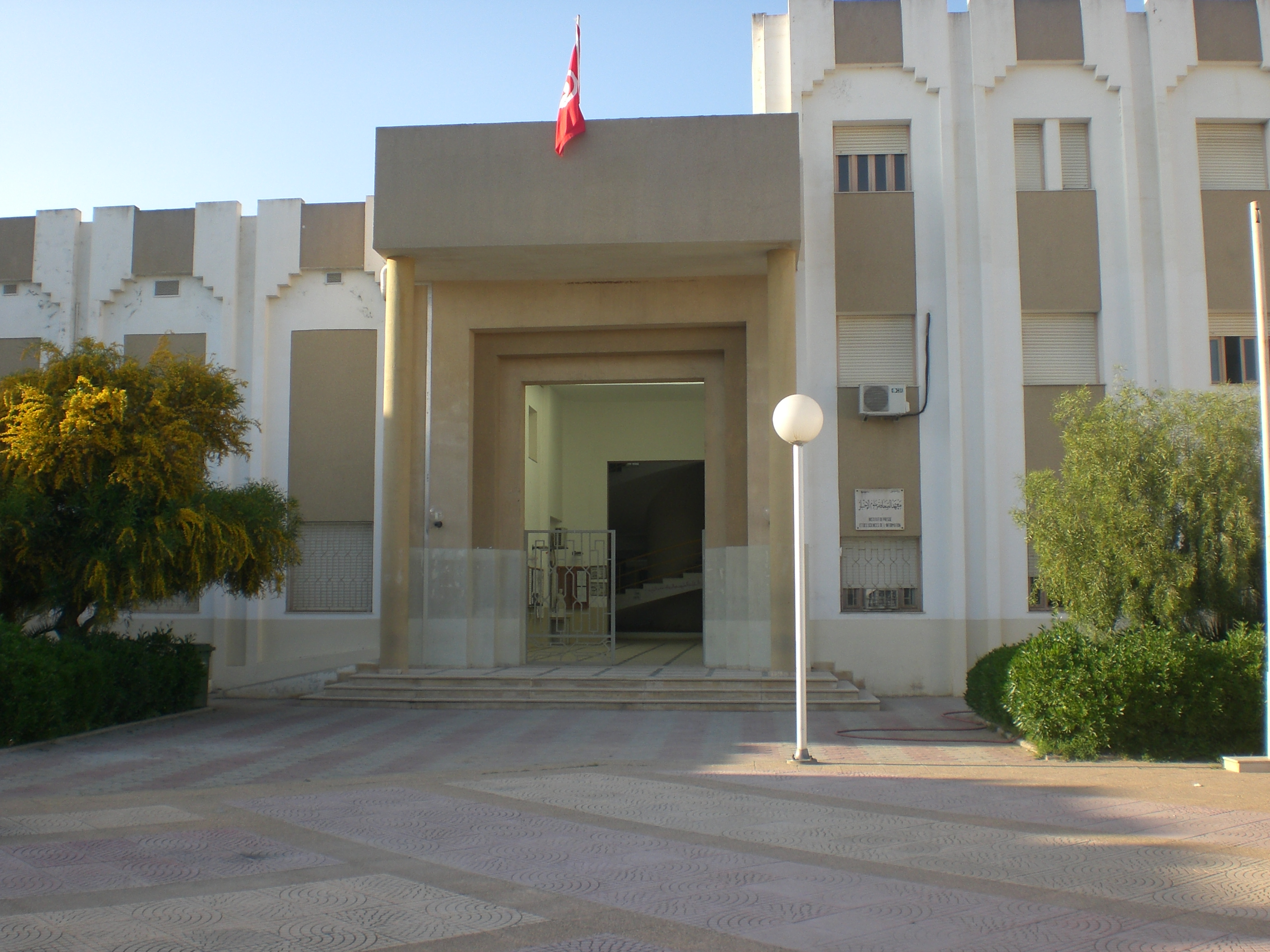 The Institute of Press in Tunis